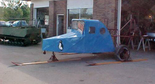 This is a homebuilt snowplane, it appears to have been built roughly during the 1930's through the 1940's based on the ski designs, controls, engine and other features. This pre-dates many commercial ventures but follows the development of the Russian Aerosan. Other notable snowplanes include Lorch, Fudge and Steadman which were all North American built snowplanes. Kristi Snowcat company designed a snowplane in the mid-1940's but never went into production with the design. Armand Bombardier designed and built a snowplane prior to 1920 but abandoned the concept to develop track driven snow vehicles. Plans for other homebuilt snowplanes were published in popular do-it-yourself magazines and included the MERRYMAKER and the SNOSLED models.